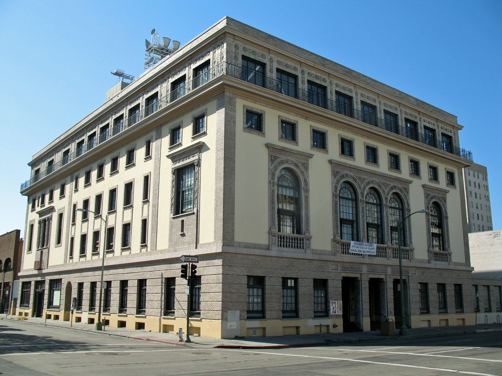 National Register of Historic Places listings in Alameda County, California. Oakland YWCA Building, 1515 Webster St, Oakland, CA. Photographed from the southeast corner of Webster and 15th Sts.